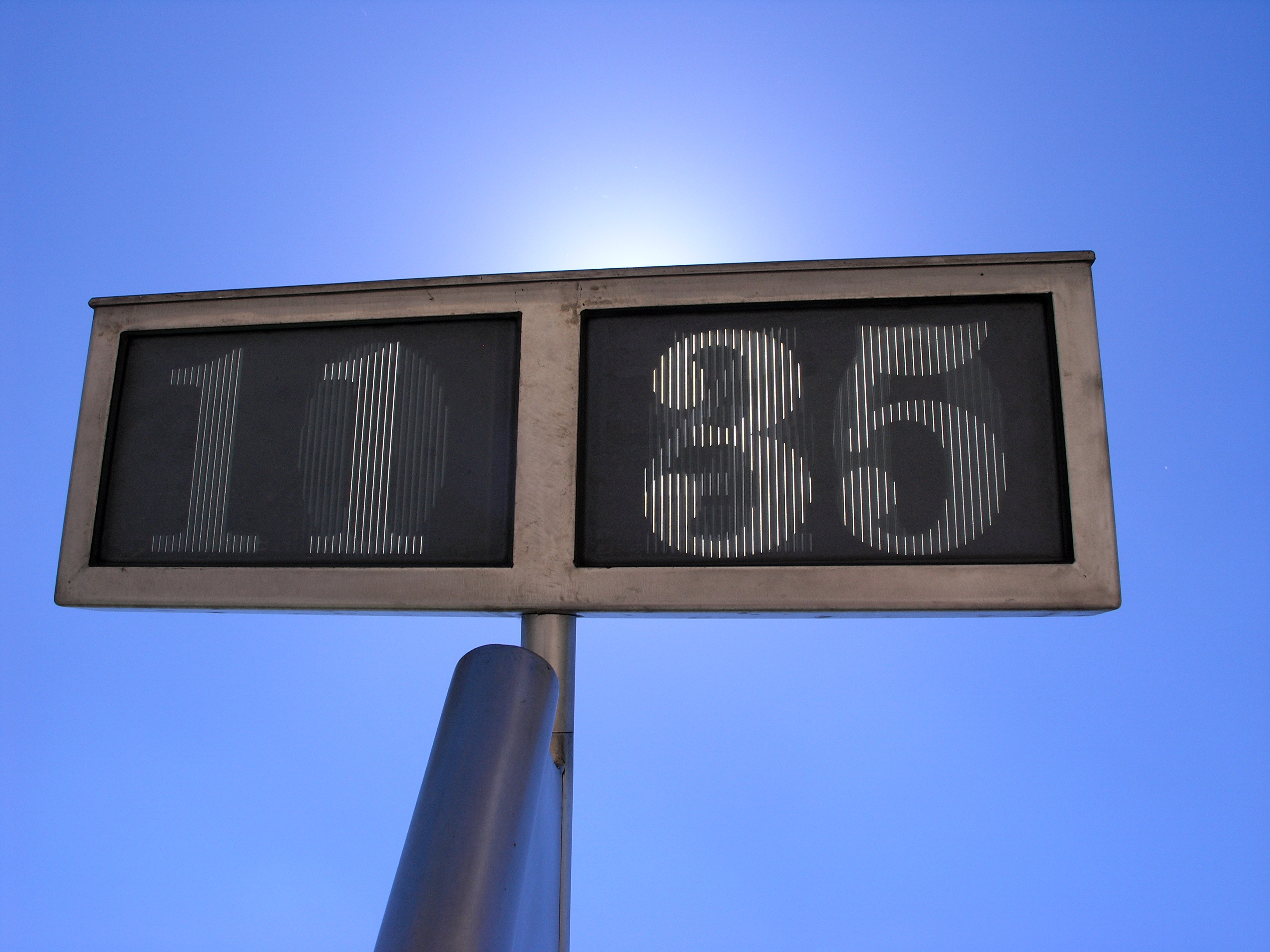 Digital sundial in action